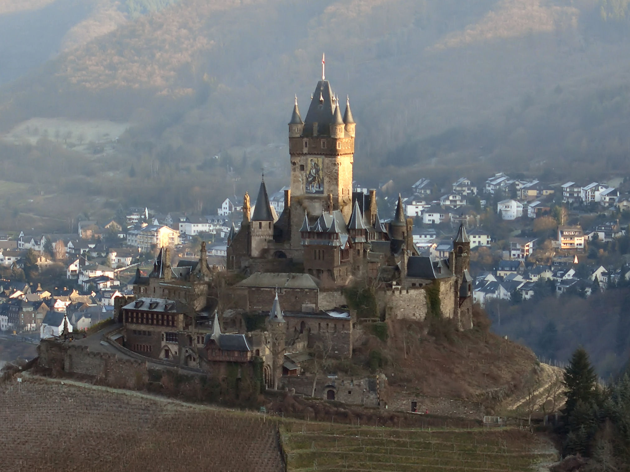 Reichsburg Cochem, northern aspect